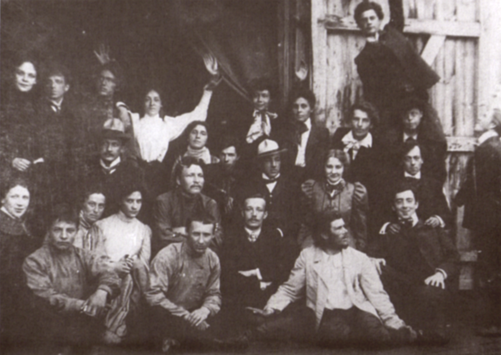 Members of the Theatre-Studio on Povarskaya Street (affiliated to the Moscow Art Theatre), led by Vsevolod Meyerhold, second on the left on the back row.